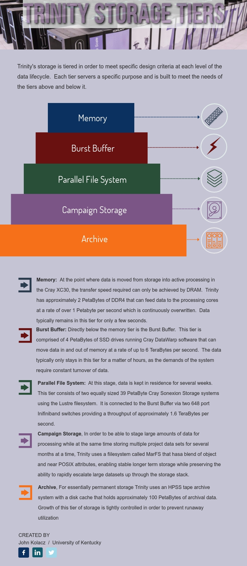 This is an infographic that I created myself using data from various source material cited in the entry. The image of the Trinity Supercomputer sampled for the header of the infographic is a public domain image.